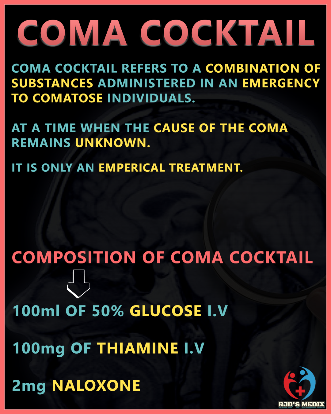 we know that naloxone are considered to be pharmacologically ideal antidotes for opoid poisoning.⁣ ⁣ coma cocktail is an combination of subsance which is given to comatose individual especially,when the cause of its coma is not known.⁣ ⁣ it includes -⁣ ⁣ Glucose 50% 100ml⁣ ⁣ thiamine 100mg⁣ ⁣ & naloxone.⁣ ⁣ ⁣ by giving this emperical treatment ratio of gaining consciousness is relatively higher.⁣ ⁣